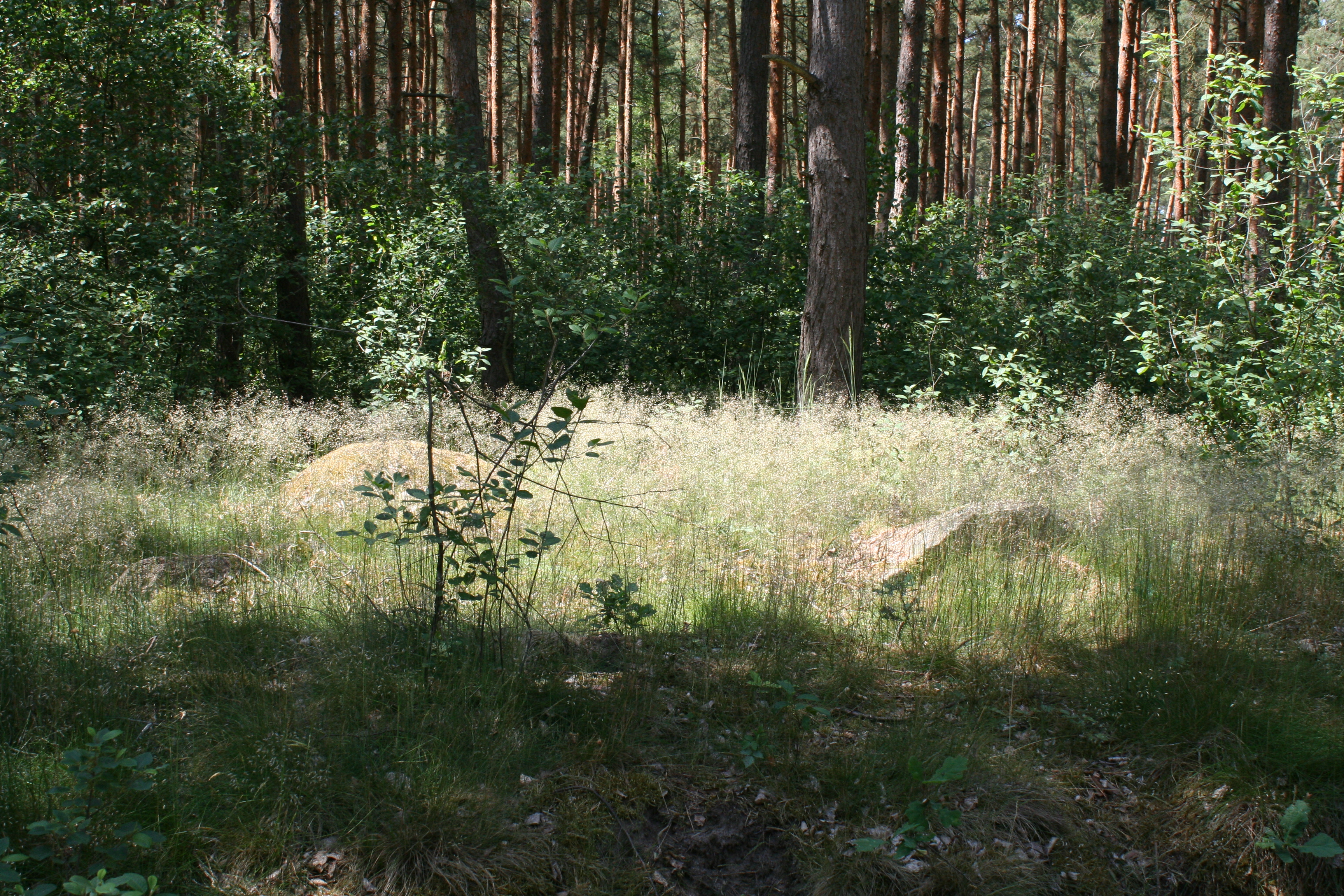 Megalithic tomb Bebertal I 13